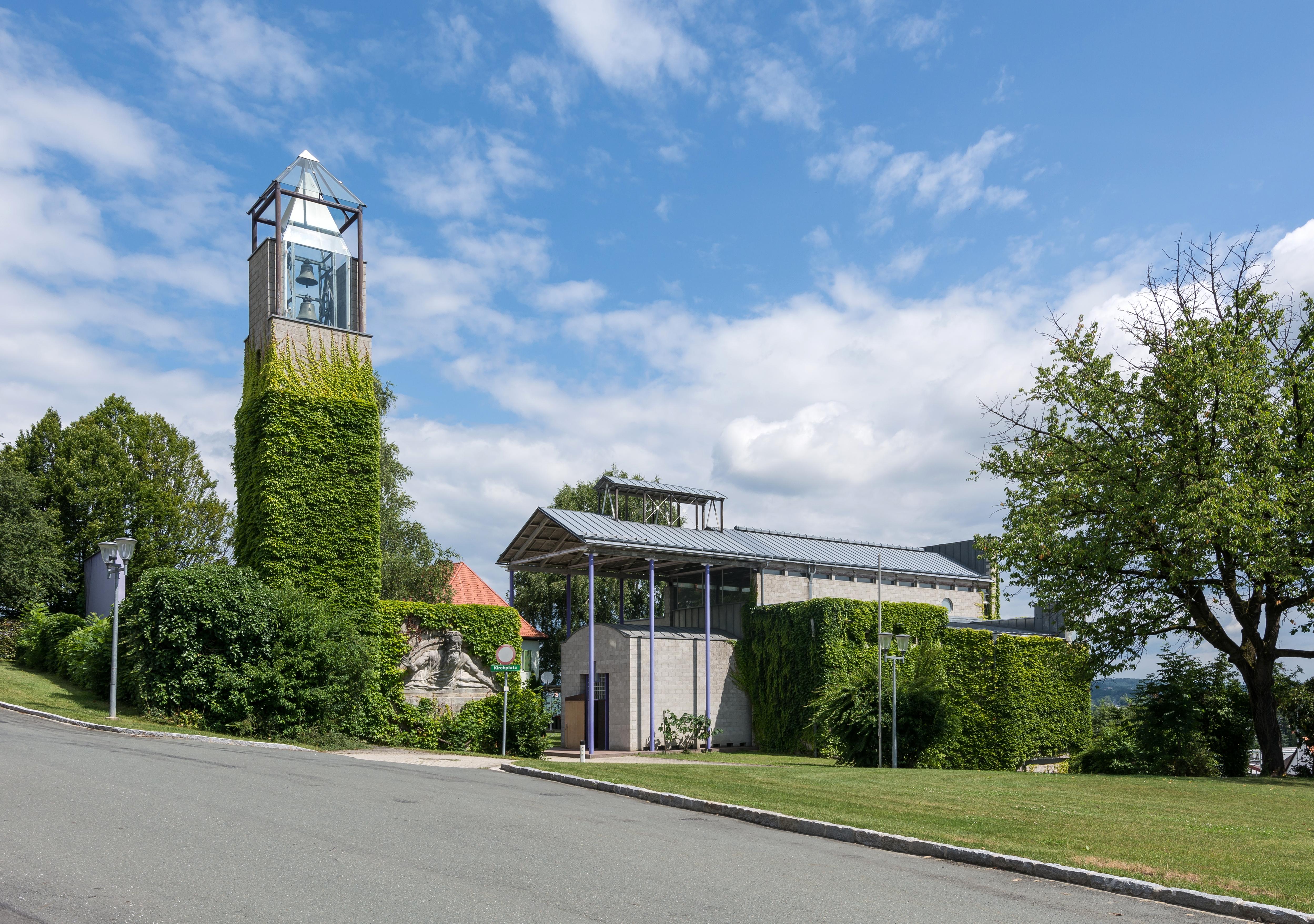 The parish church of Lannach was erected in 1986/1987 and sanctified in December 2000. In front of the belfry there is the Statue "Dio" from Rodolfo Zilli